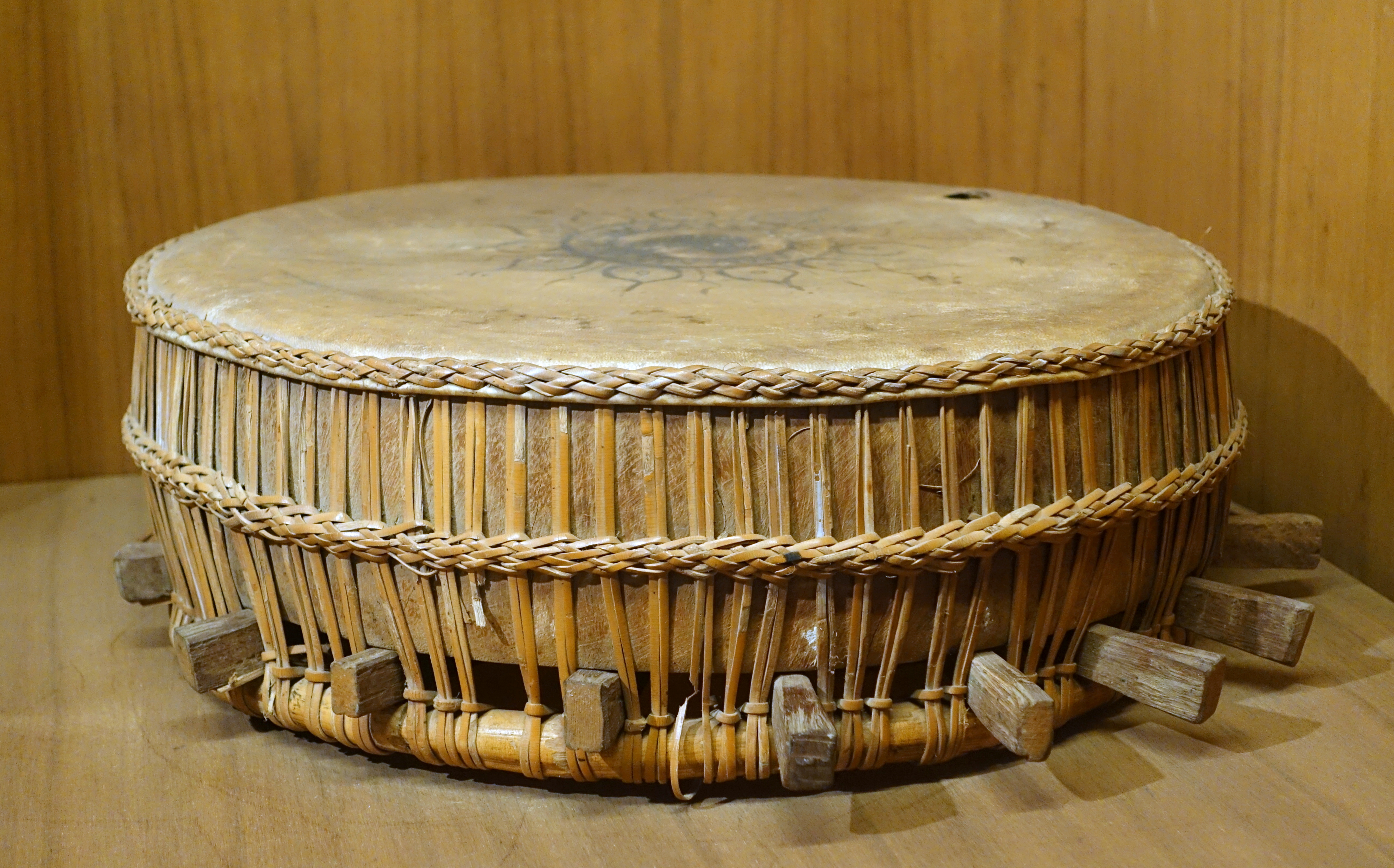 Exhibit in the Vietnam Museum of Ethnology - Hanoi, Vietnam.